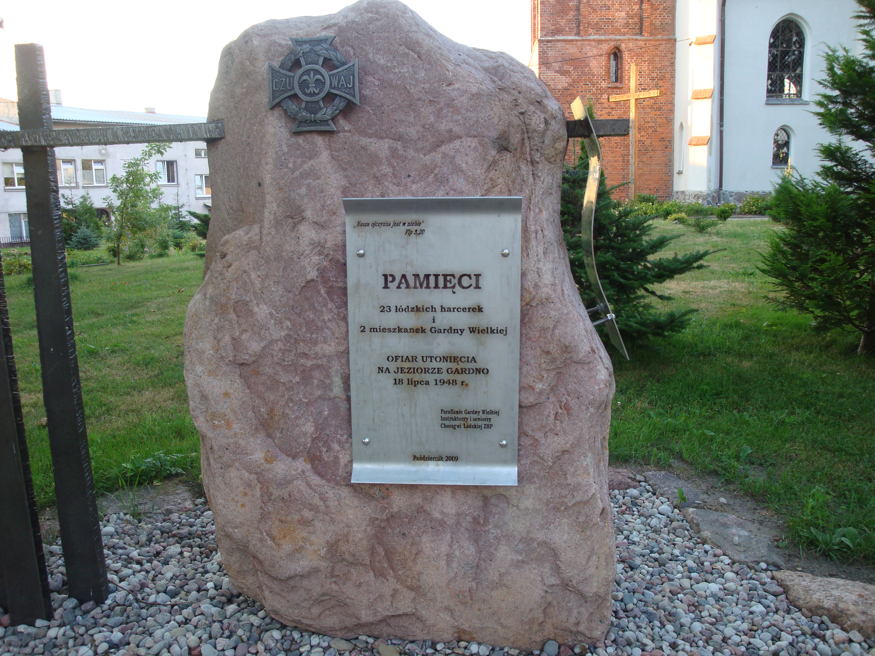 Gardna Wielka-village in Pomeranian Voivodeship, Poland. Monuments to 25 victims of boat sinking on Gardno Lake in 1948